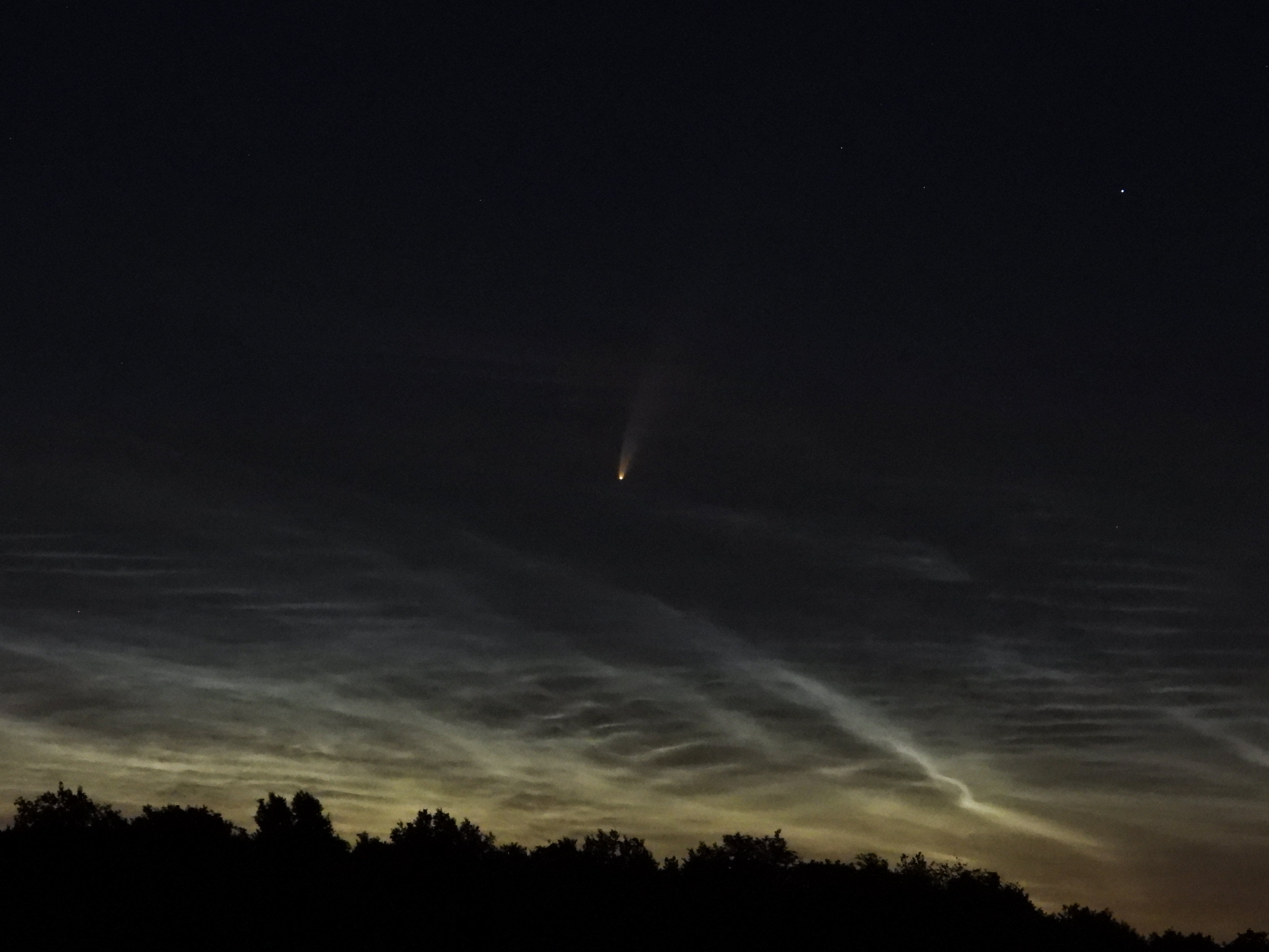 Neowise comet with NLC clouds, Zuzici, Istra, Croatia, 08.07.2020. Taken with Nikon P1000